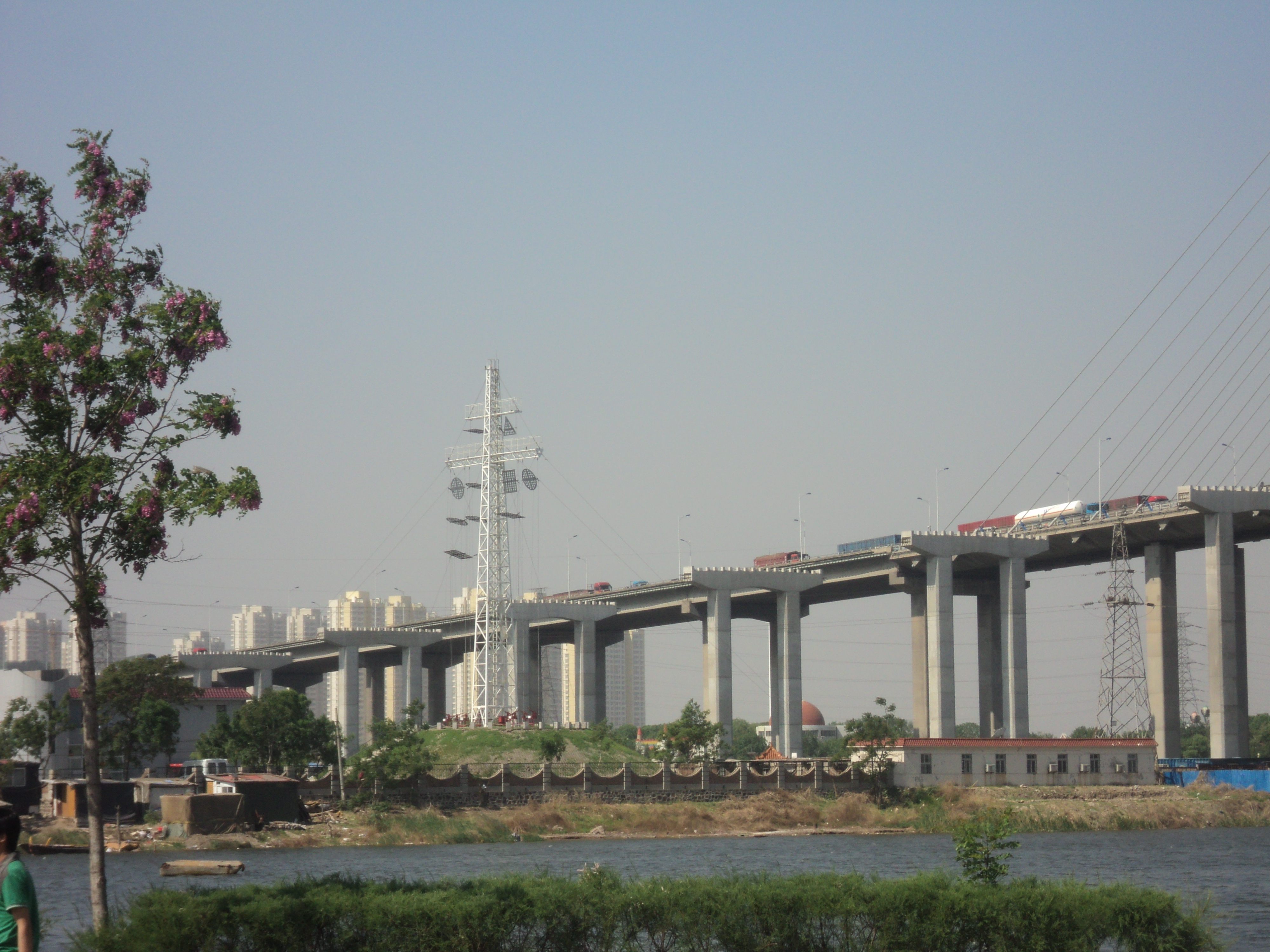 The tide signal station next to the Xingang Shiplock, at the North Taku Fort area of the Nanjiang Island of the Tianjin Port.